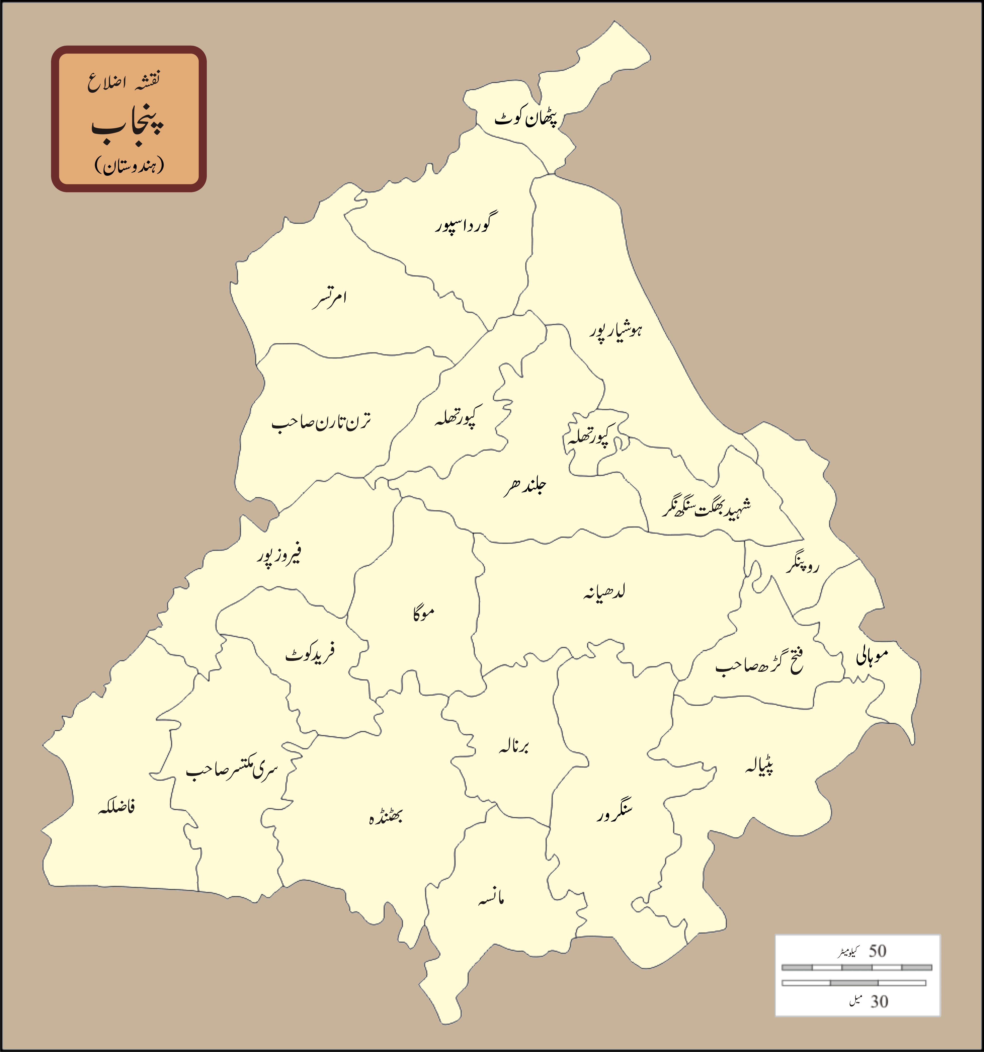 Punjab India Dist (Urdu)